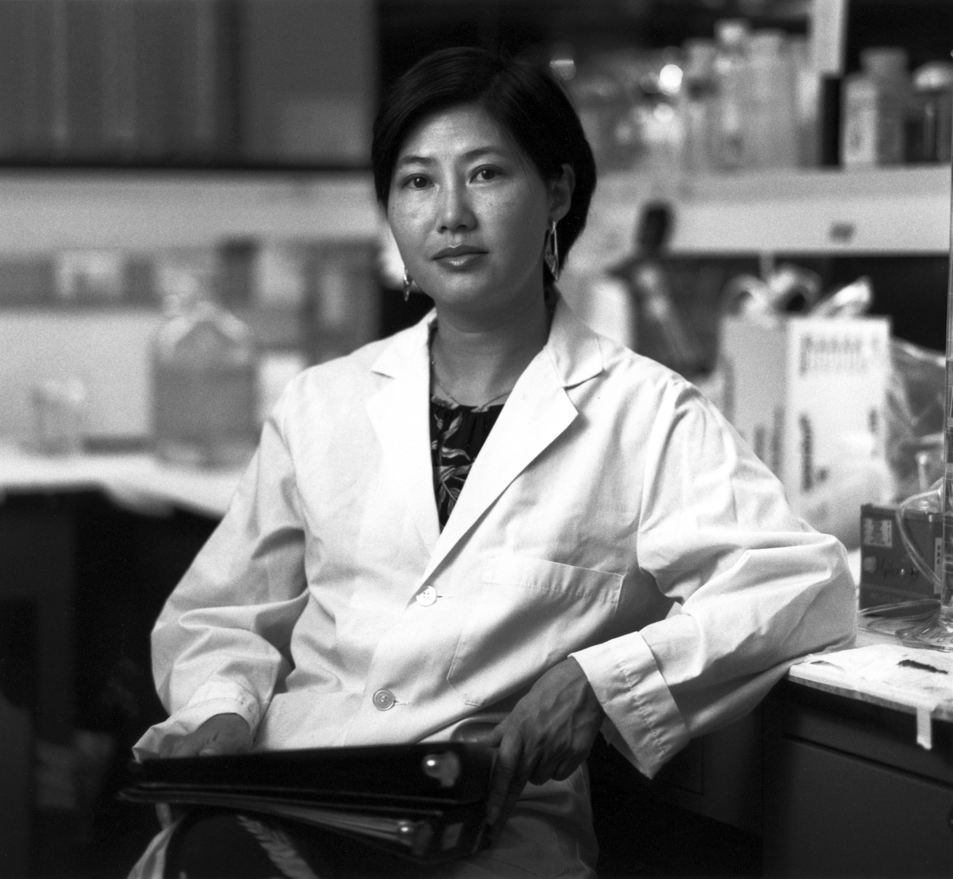 Title: Portrait: Dr. Flossie Wong-Staal Description: Portrait of Dr. Wong-Staal, former Section Chief, Laboratory of Tumor Cell Biology, National Cancer Institute. Subjects (names): Wong-Staal, Flossie Topics/Categories: Historical -- People National Cancer Institute -- People People -- Professional Type: B&W Source: National Cancer Institute (NCI) Author: Bill Branson Date Created: Unknown Date Added: 2/26/2010 Reuse Restrictions: None - This image is in the public domain and can be freely reused. Please credit the source and/or author listed above.